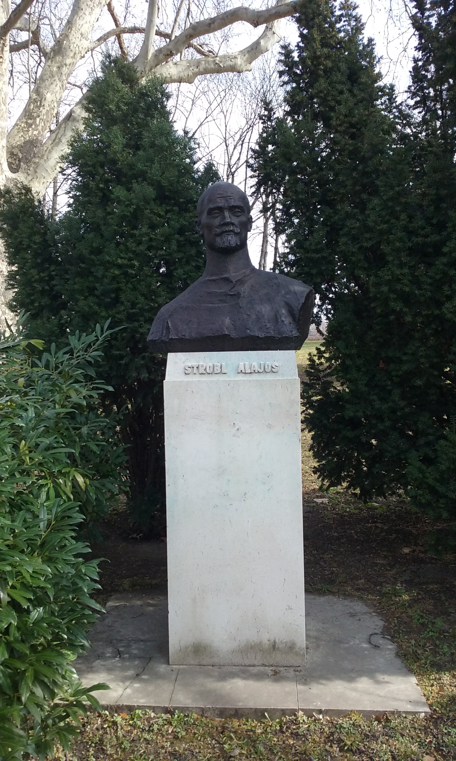 Statue of Alajos Strobl, Hungarian sculptor on Margaret Island, Budapest, Hungary in 29 February 2020